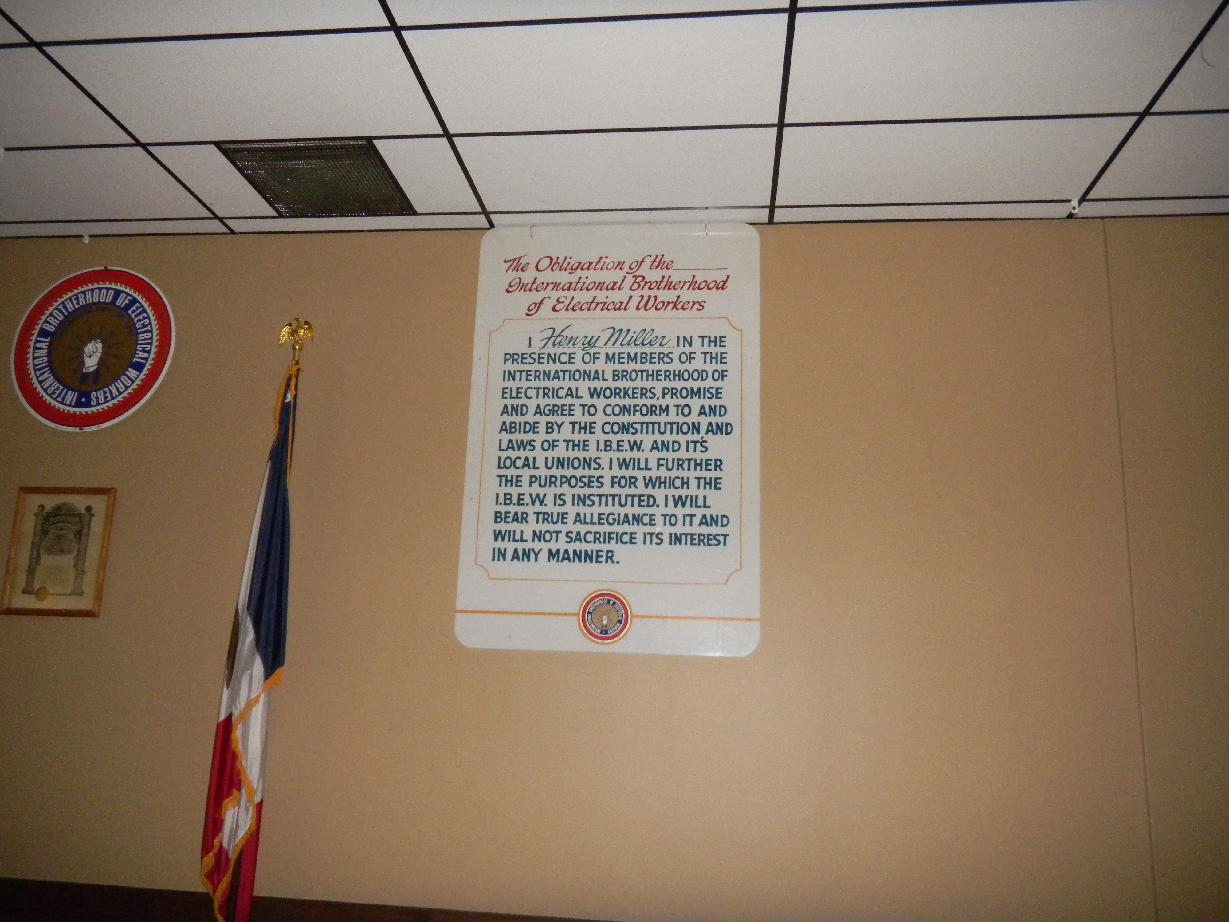 Obligation of the International Brotherhood of Electrical Workers with the flag of the State of Iowa.